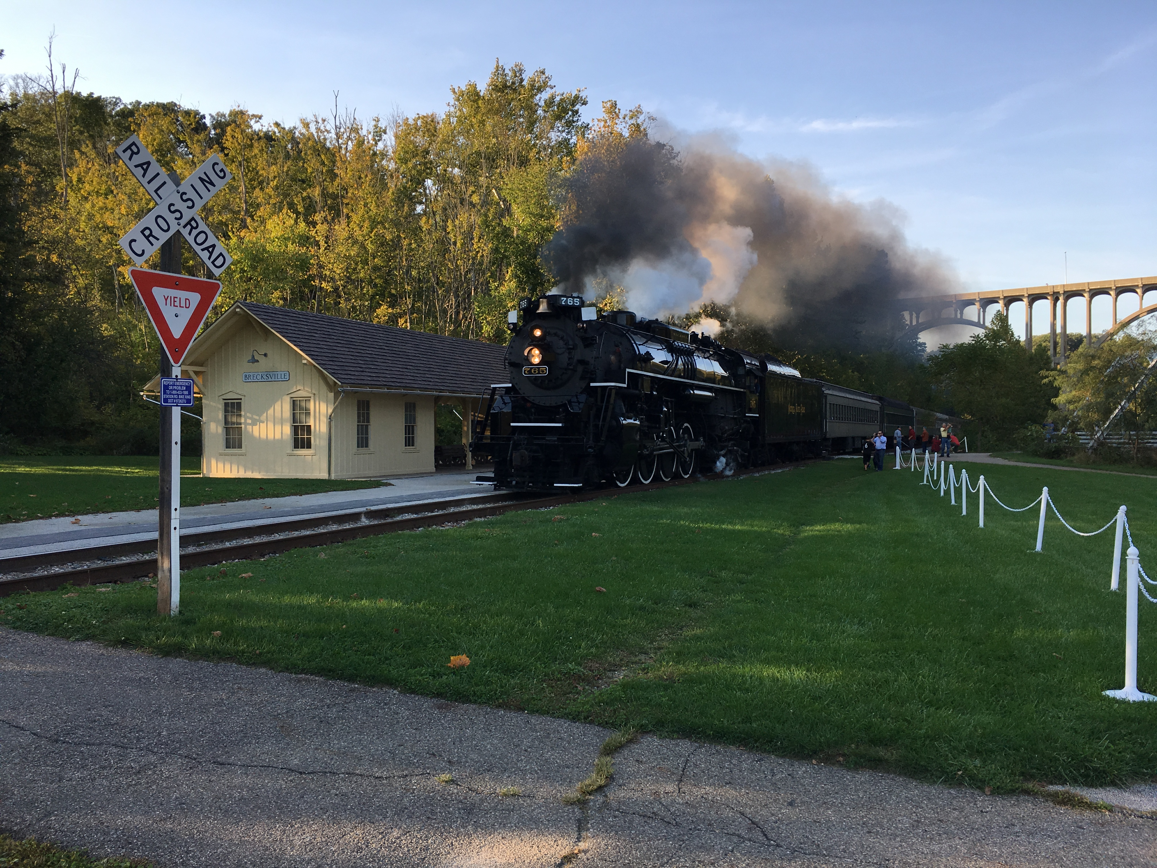 The Cuyahoga Valley National Park (CVNP) has the Cuyahoga Valley Railroad system that travels from Cleveland to Akron. This photo shows the Brecksville Train Depot with a visiting Steam Locomotive approaching. The Steam Locomotive is the 765 Nickel Plate Road visiting from the Fort Wayne Railroad Historical Society the last two weekends of September 2018. The No. 765 has 14 wheels, stands 15 feet tall, weighs 404 tons, and with 4,500 horsepower will travel at over 70 miles per hour. Restored in 1974 and 1963.